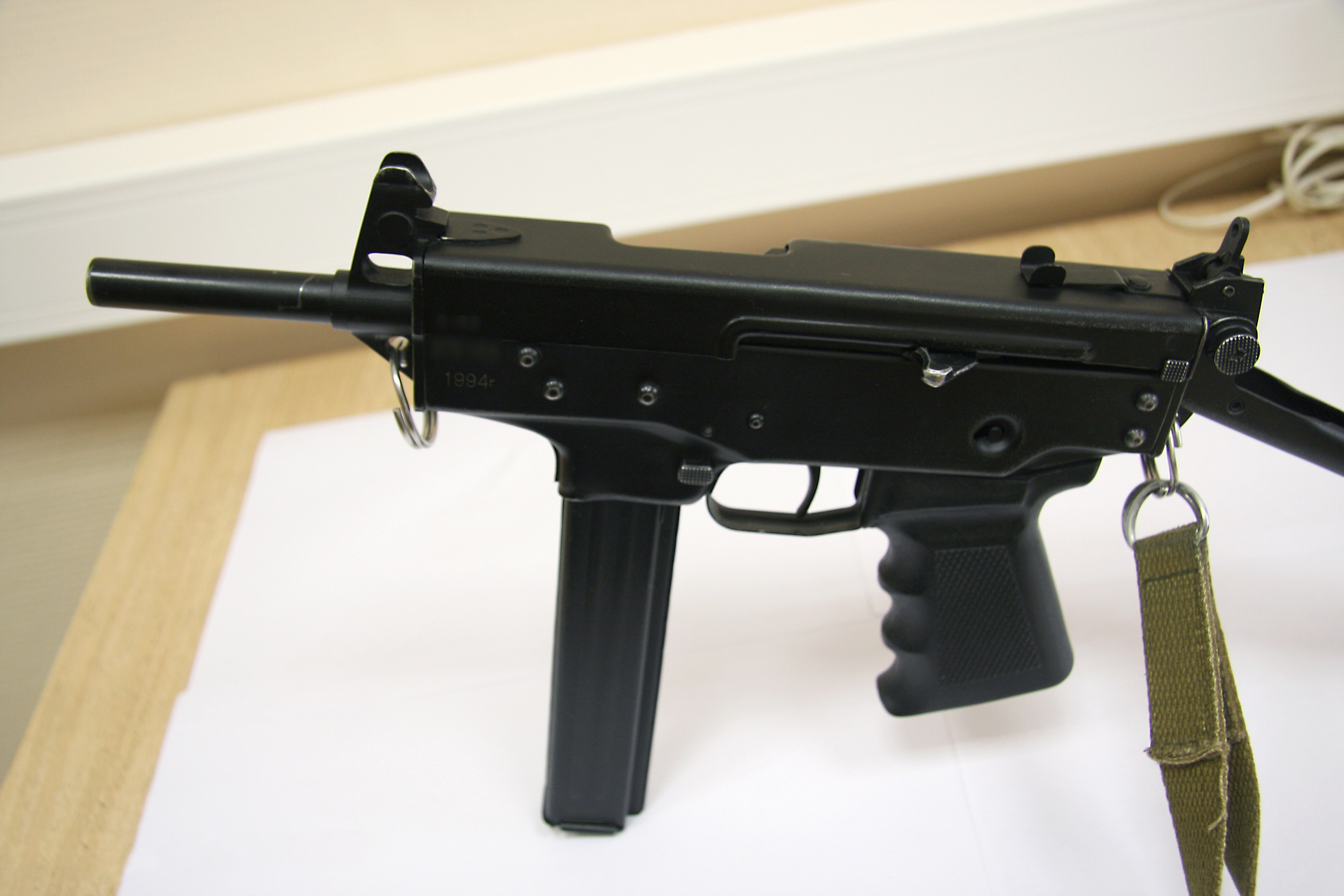 PP-91 Kedr - OSN Saturn